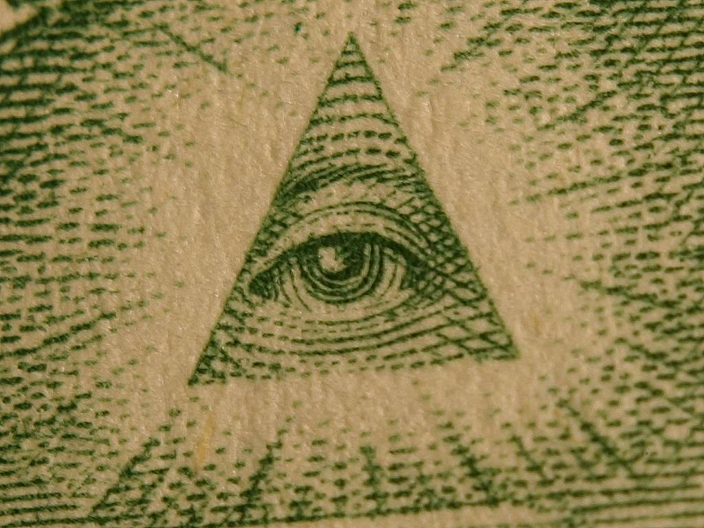 Eye of Providence on reverse side of the Great Seal of the United States, as seen on U.S. dollar bill.